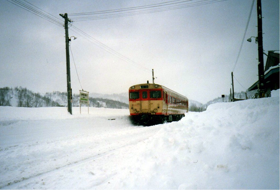 KiHa 53 diesel railcar at Shumarinai station (Shinmei line, February 1994)